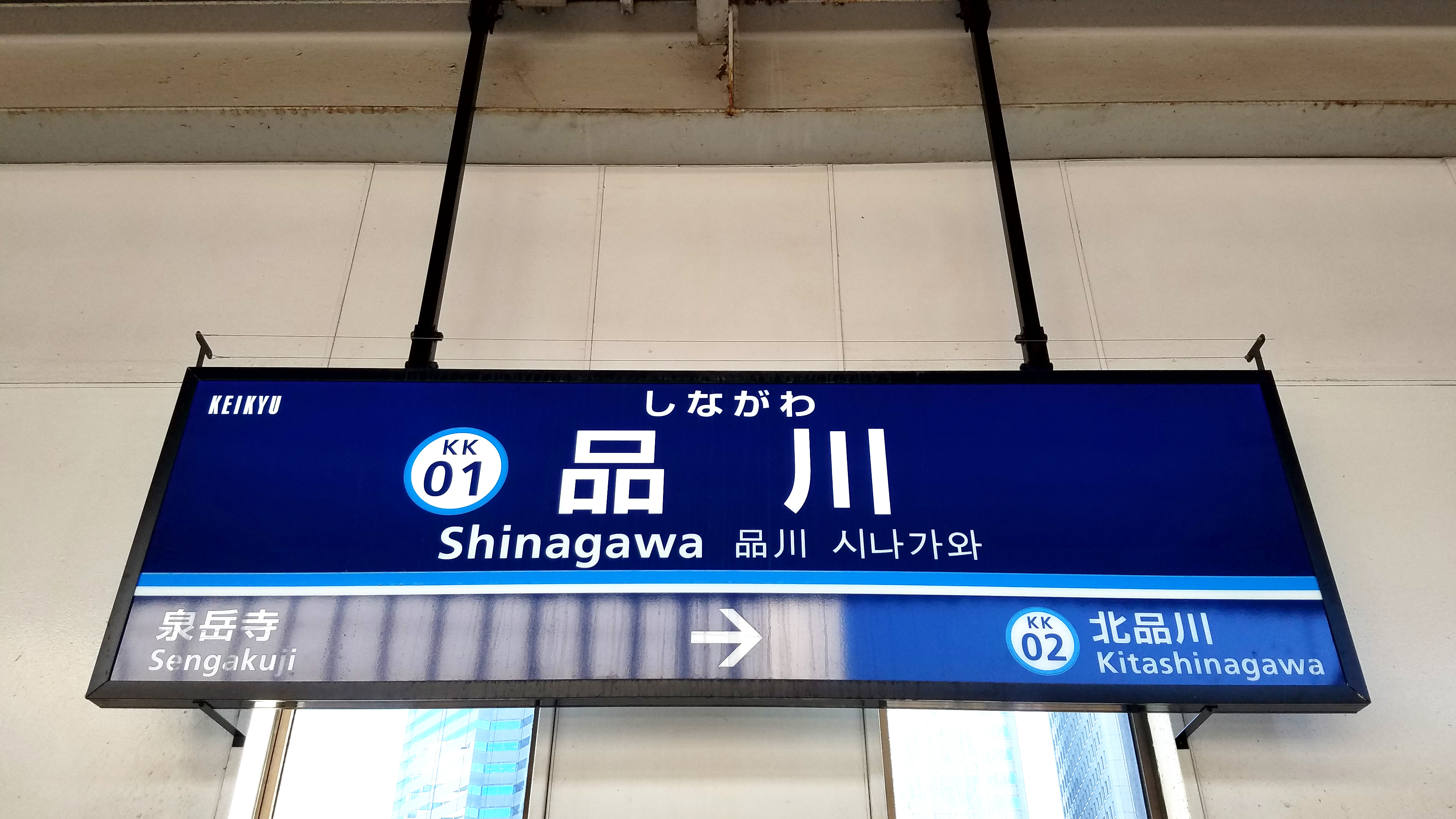 A sign of Shinagawa Station on the Keikyū Main Line